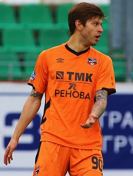 Fyodor Smolov